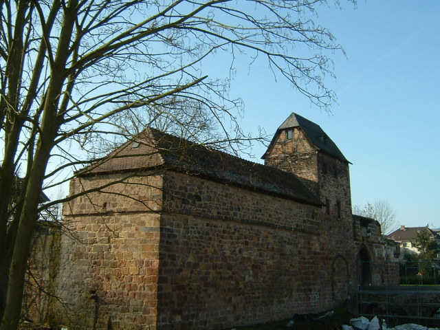 Bad Vilbel, town in Hesse. Here:View of the ancient water-castle